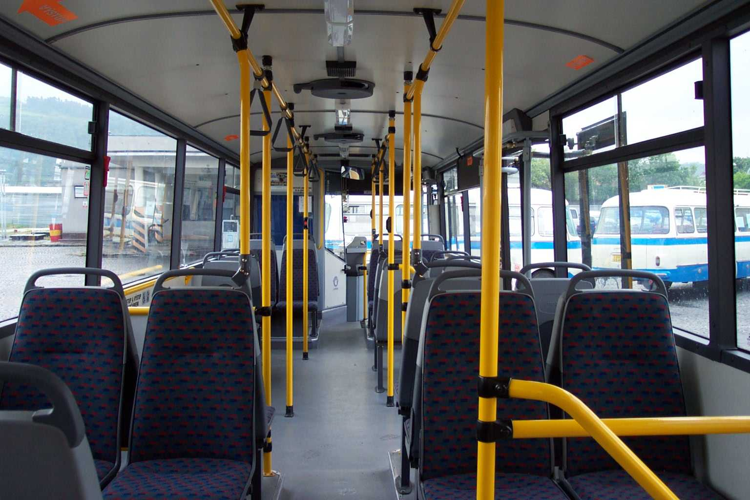 Beroun, bus type Karosa's interieur